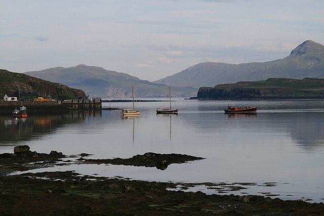 Pier and entrance to Canna harbour The ferry comes to Canna four days of the week and is a lifeline for the islanders. Yachts also frequent the sheltered harbour.